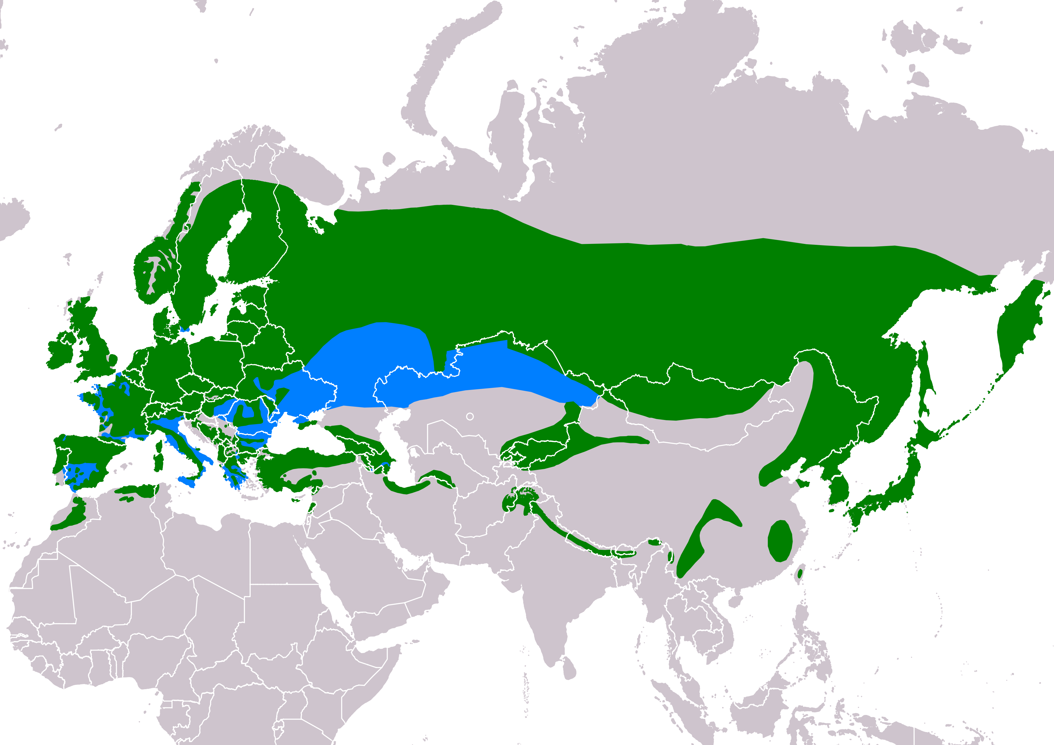 map of coal tit (Periparus ater) according to IUCN 2018.2 , Legend: Extant, resident (#008000),Extant, non-breeding (#007FFF)